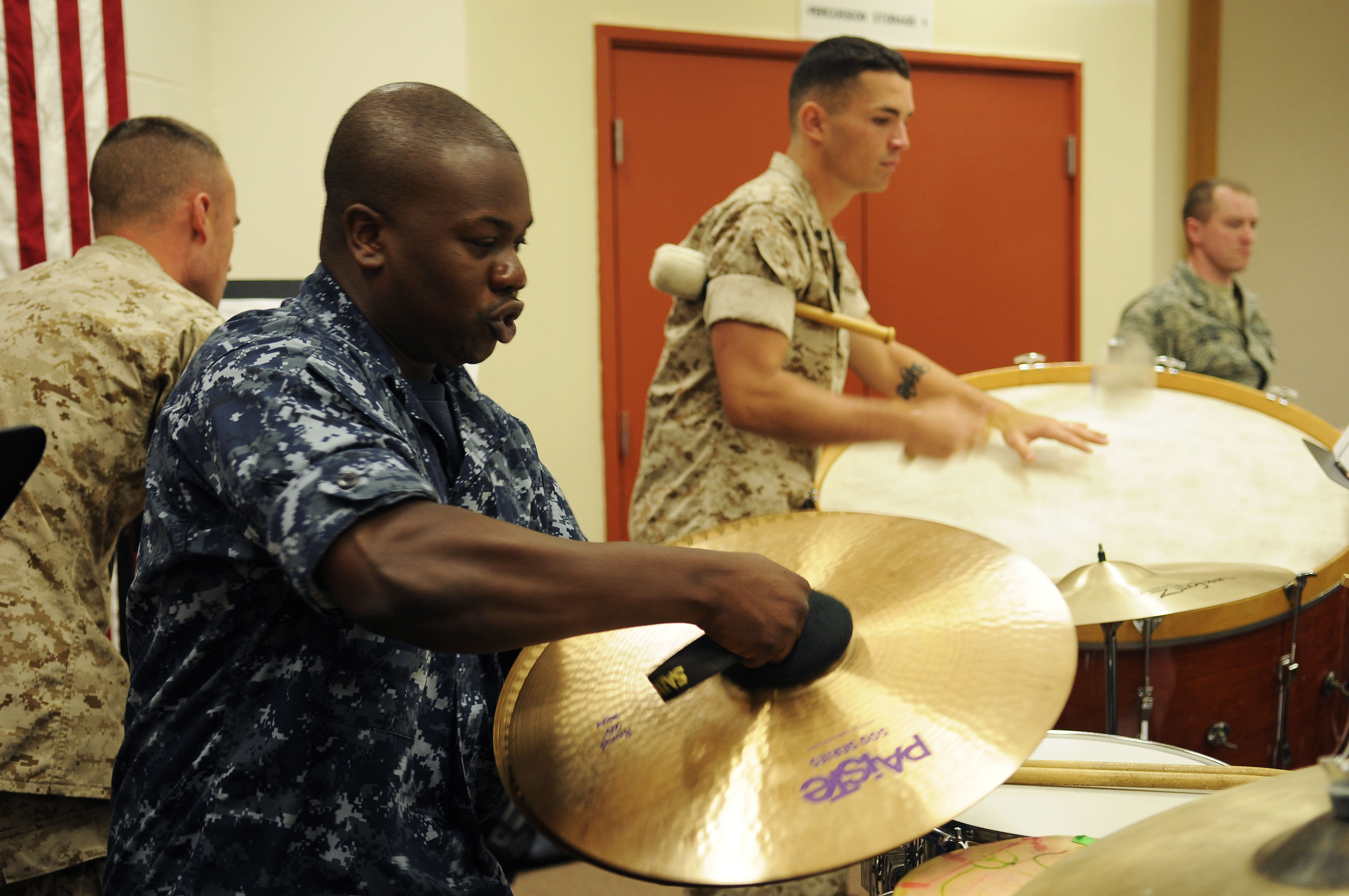 PEARL CITY, Hawaii (May 18, 2011) Musician 2nd Class Ed William, assigned to the U.S. Pacific Fleet Band, plays the cymbals during the joint-service rehearsal at the Hawaii Army National Guard training center. The Army's 25th Infantry Division Band, 111th Hawaii National Army Band, Marine Forces Pacific Band, Air Force Band of the Pacific and the U.S. Pacific Fleet Band are preparing for the Military Appreciation Month Combined Service Concert at the Hawaii Theatre. (U.S. Navy photo by Mass Communication Specialist 2nd Class Mark Logico/Released)